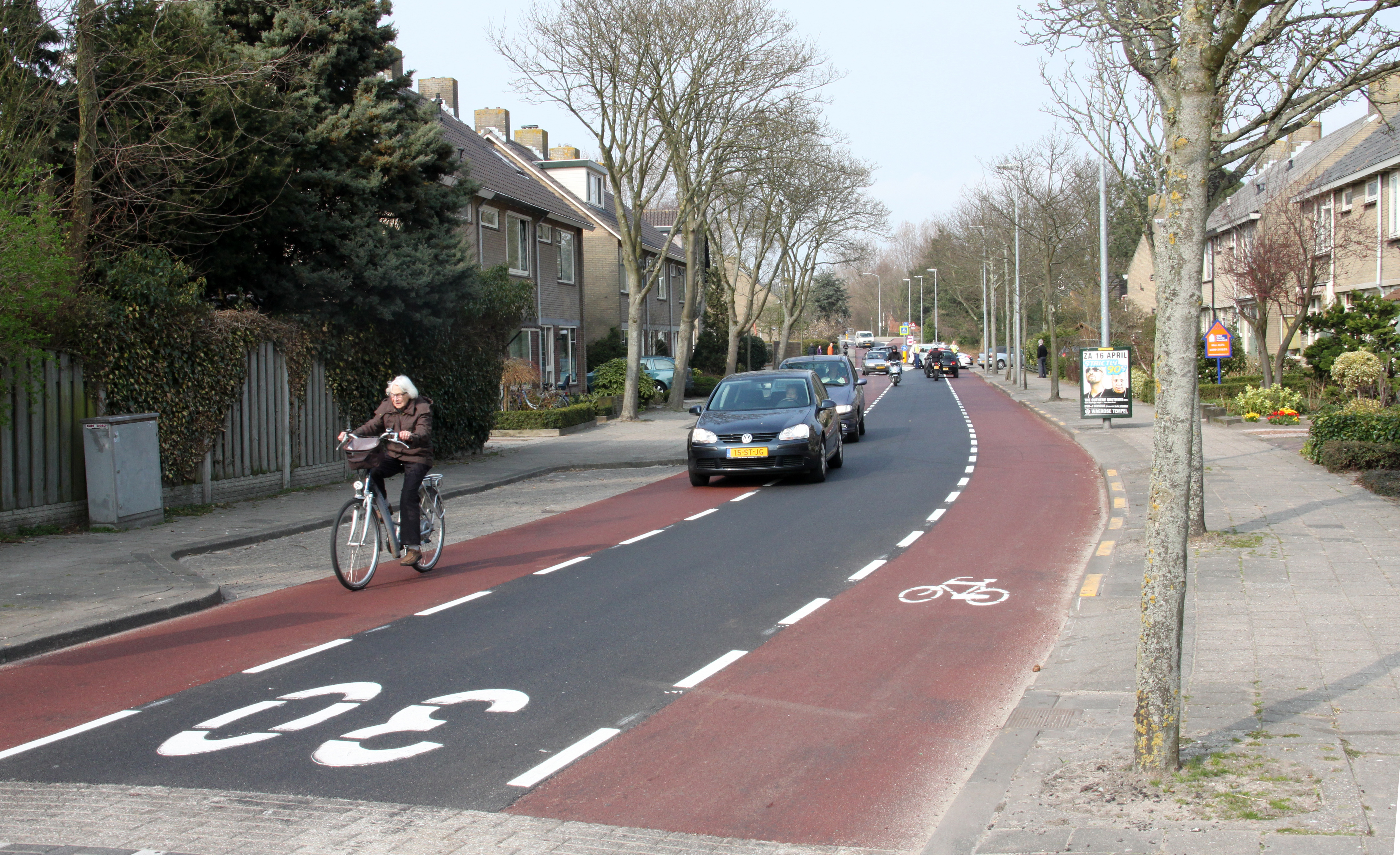 Cycle lanes in Oudorp.